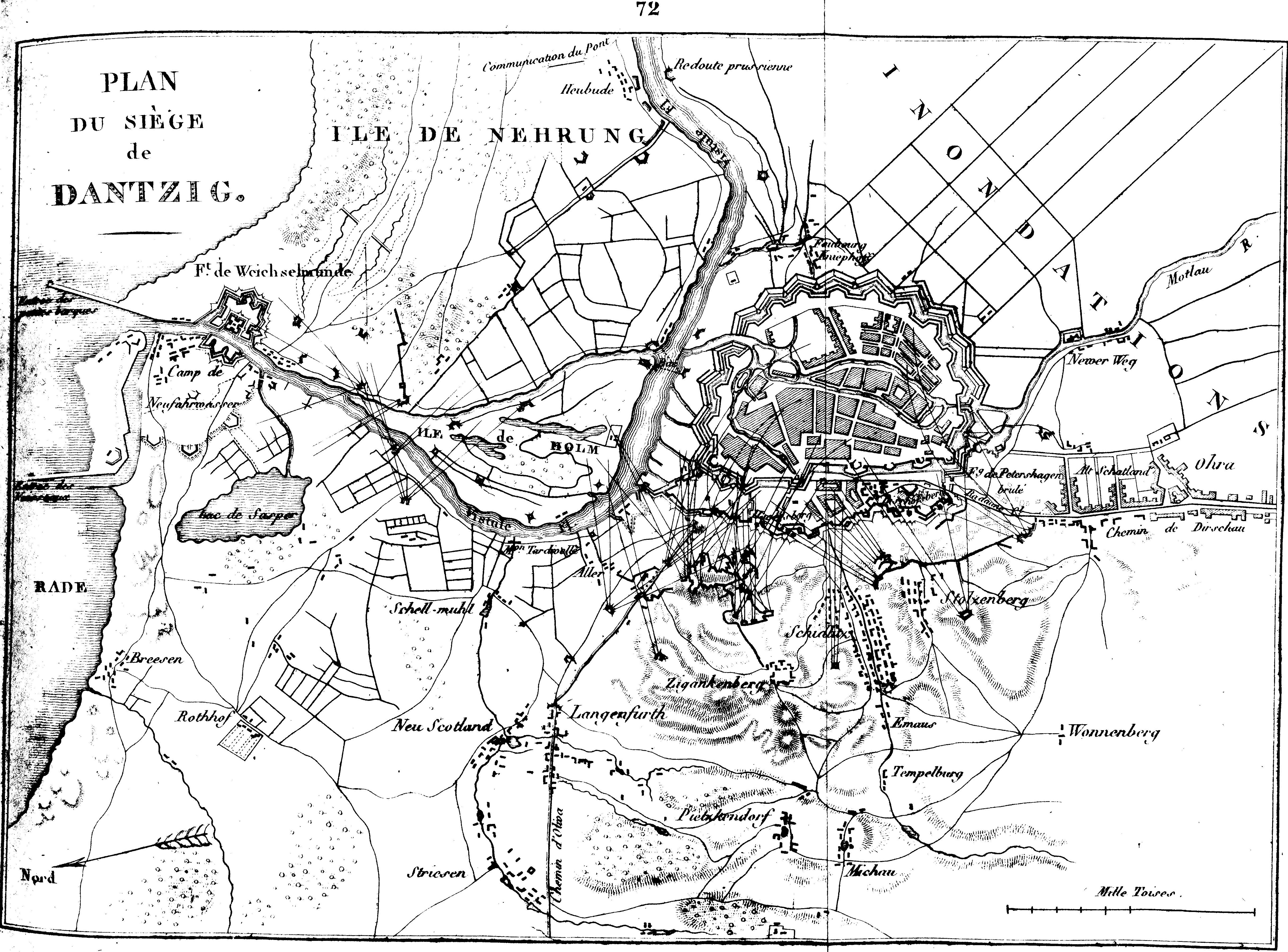 Plan of the Siege of Danzig 1807